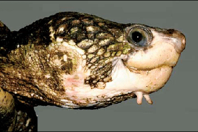 Head shot of Elseya albagula